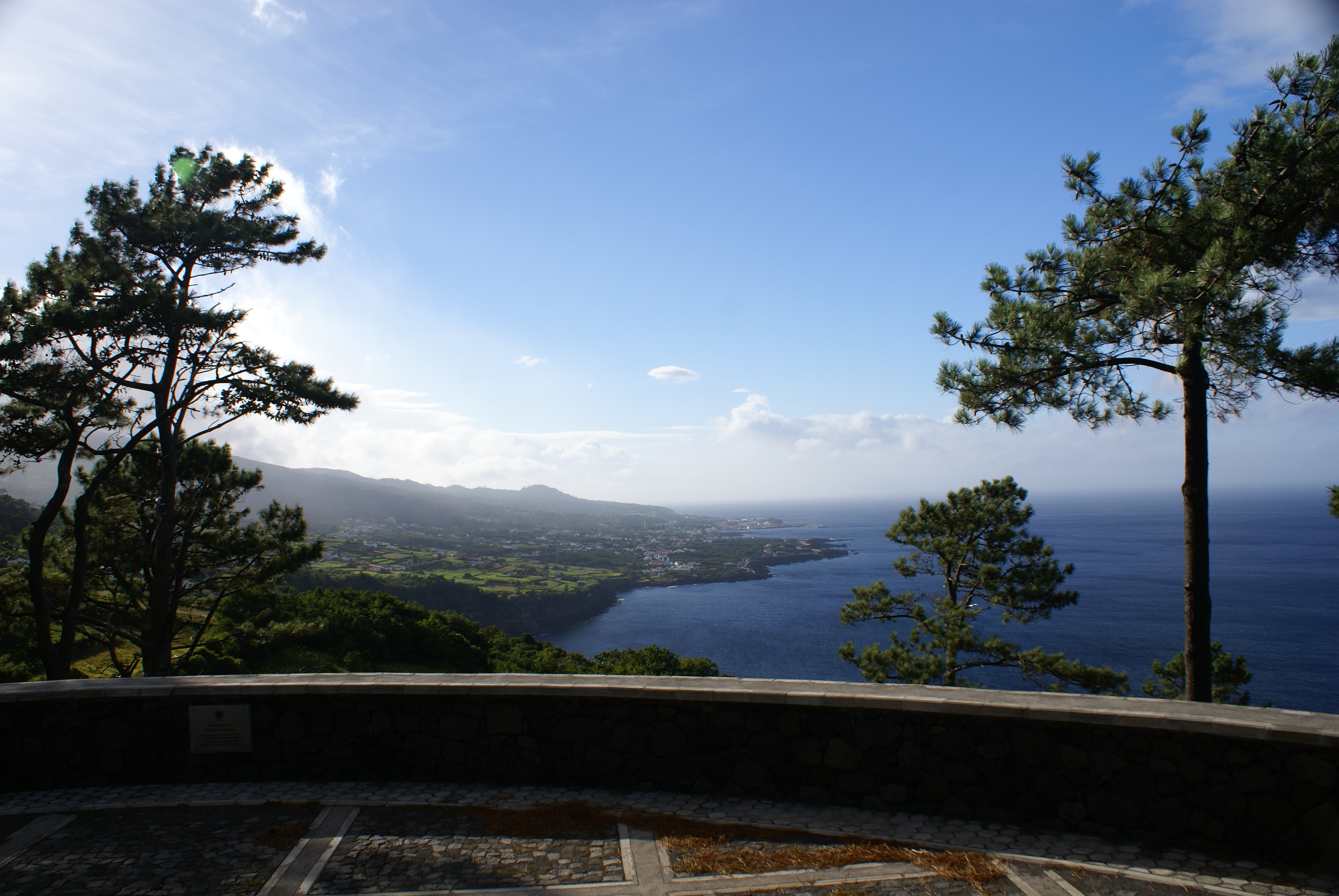 Miradouro de São Miguel Arcanjo, Parque Florestal da Prainha, concelho de são Roque do Pico, ilha do Pico, Açores, Portugal